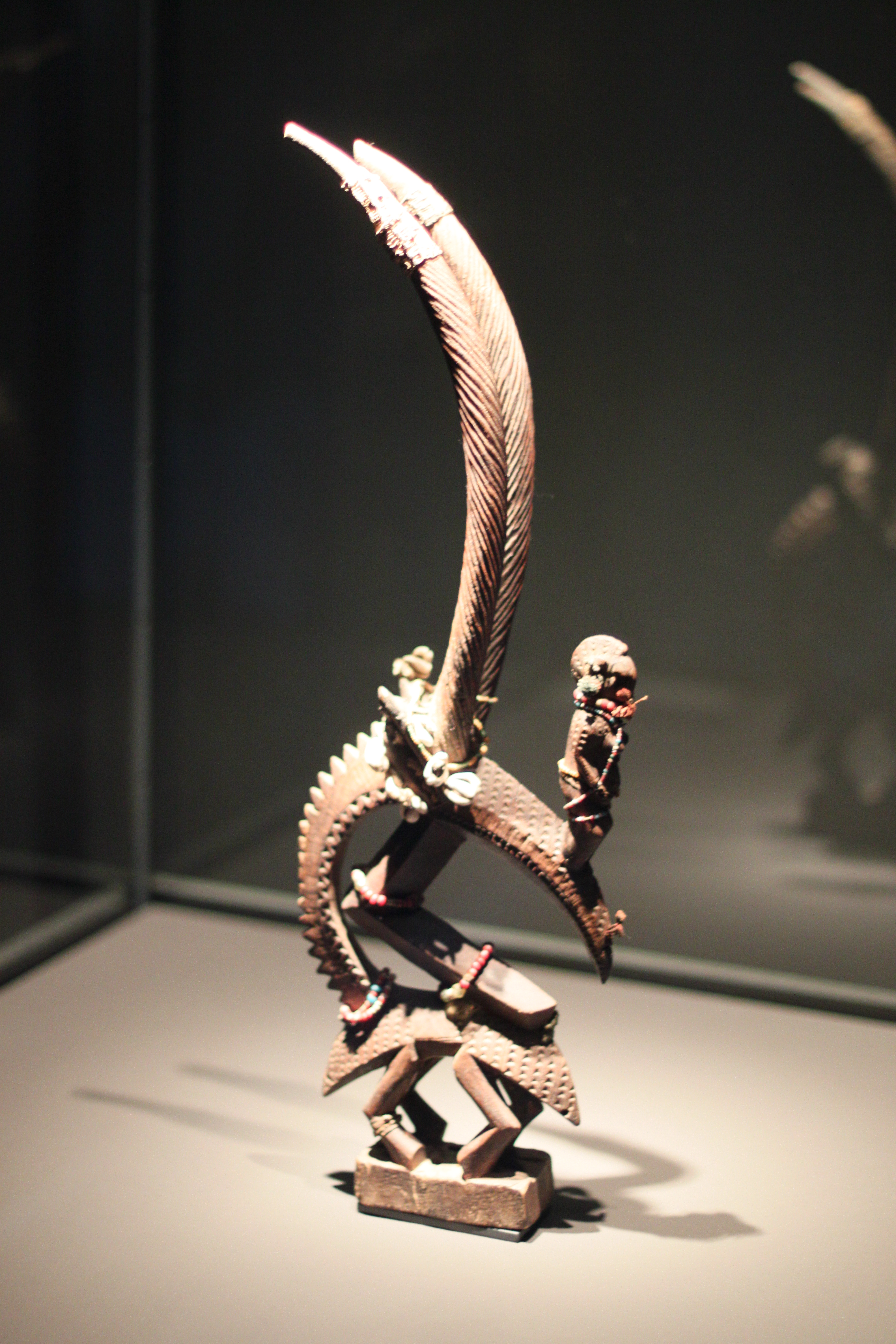 Mask Tyi wara, Mali, Bamanan; 19th or early 20th century; wood, mollsucs, pearls; African department, Ethnological Museum, Berlin, Inv. No. III C 25876 (collection Leo Frobenius, acquired in 1910